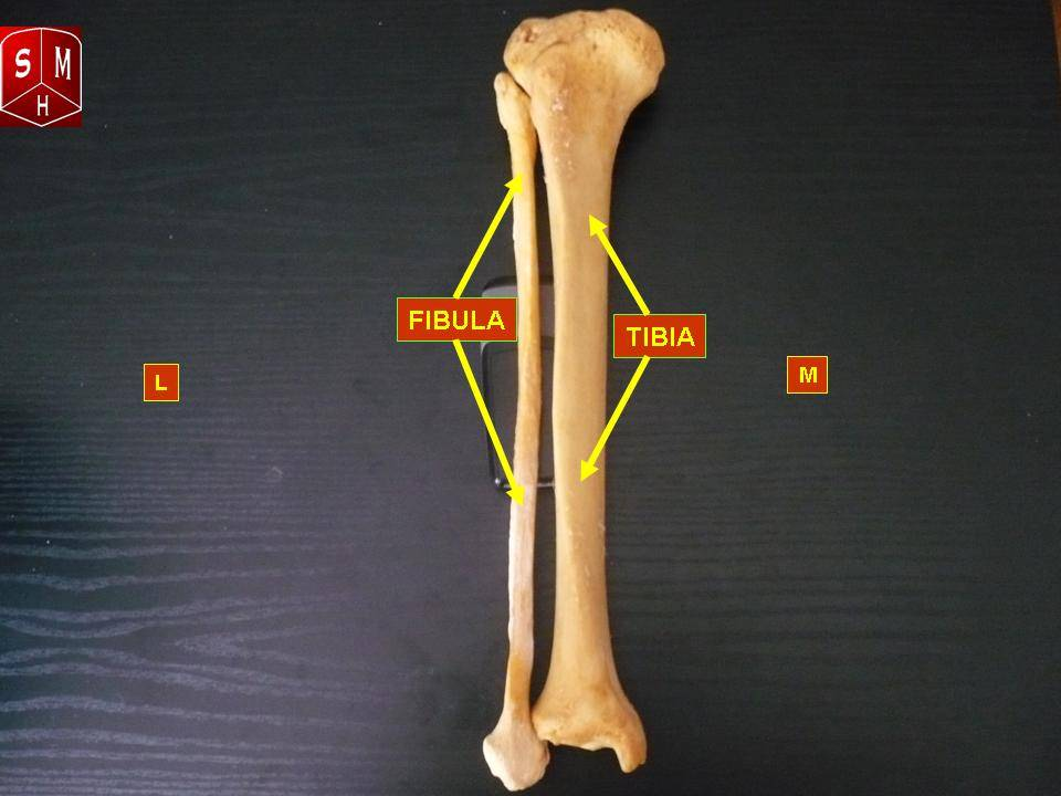 Anatomical dissections